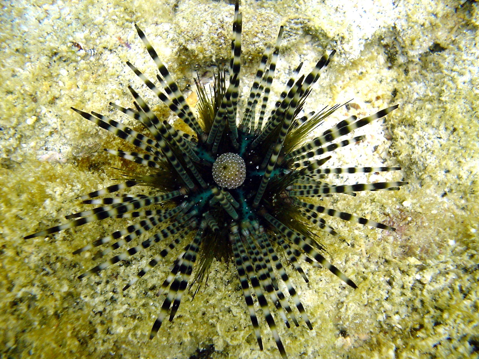 Banded sea urchin, Echinothrix calamaris